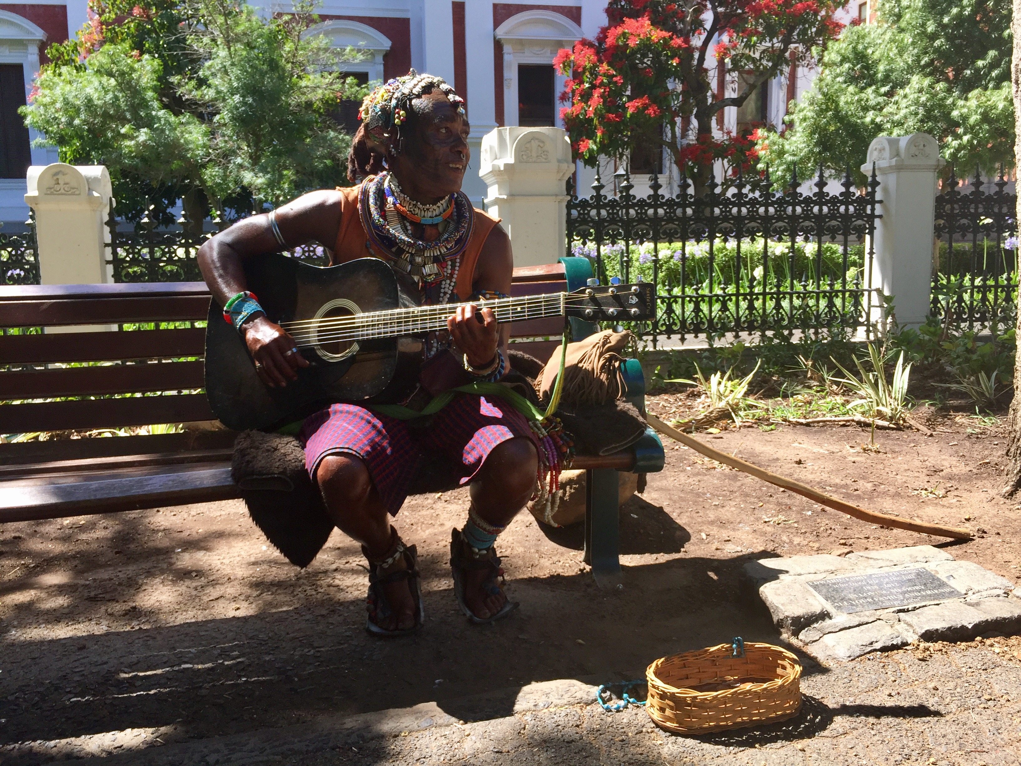 Homeless person trying to make a living trough music. This is an image of "African people at work" from South Africa